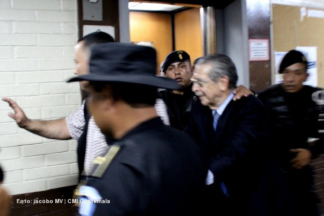 Ex-General Efrain Rios Montt after being convicted for genocide on May 10, 2013 in Guatemala City.